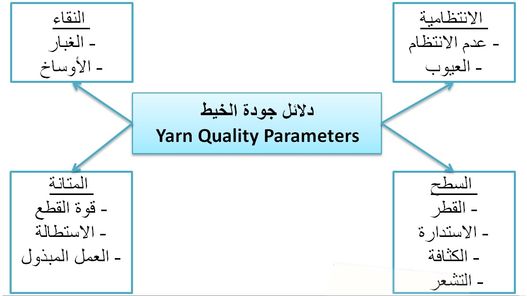 Quality Parameters for yarn